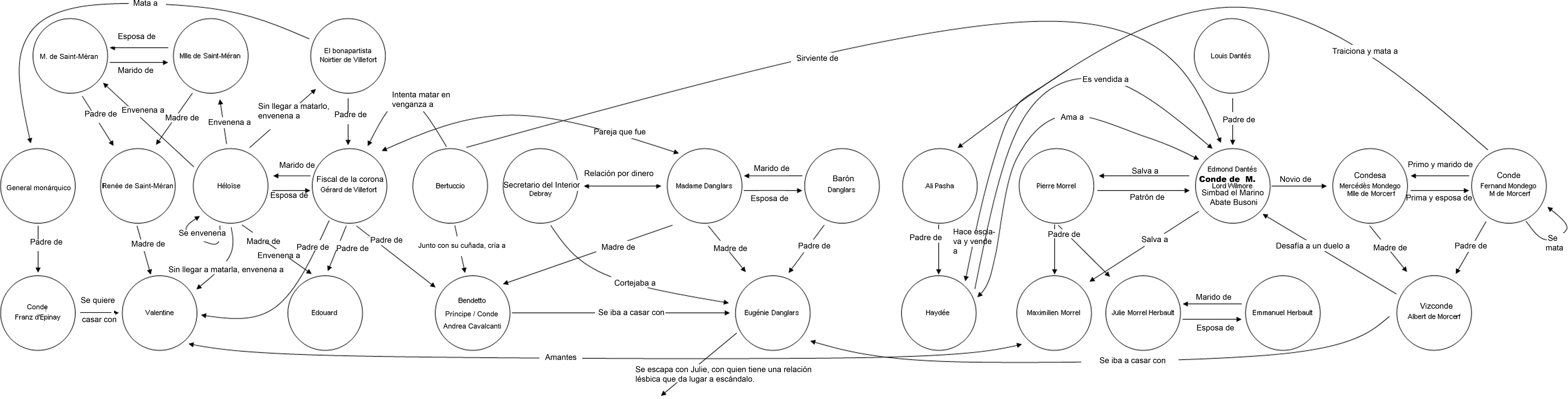 Scheme of characters relations in "Count of Montecristo".